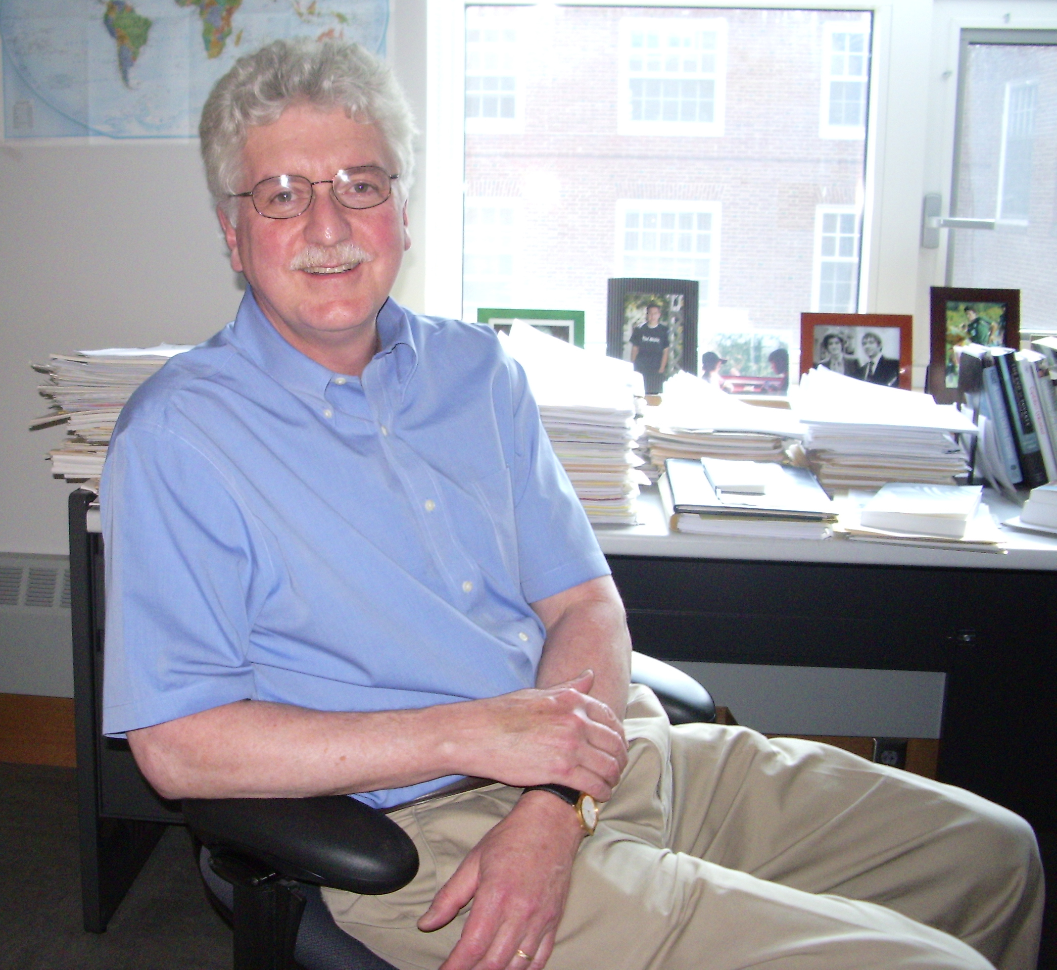 Photograph of Ronald Edsforth, currently a professor at Dartmouth College in Hanover, New Hampshire.